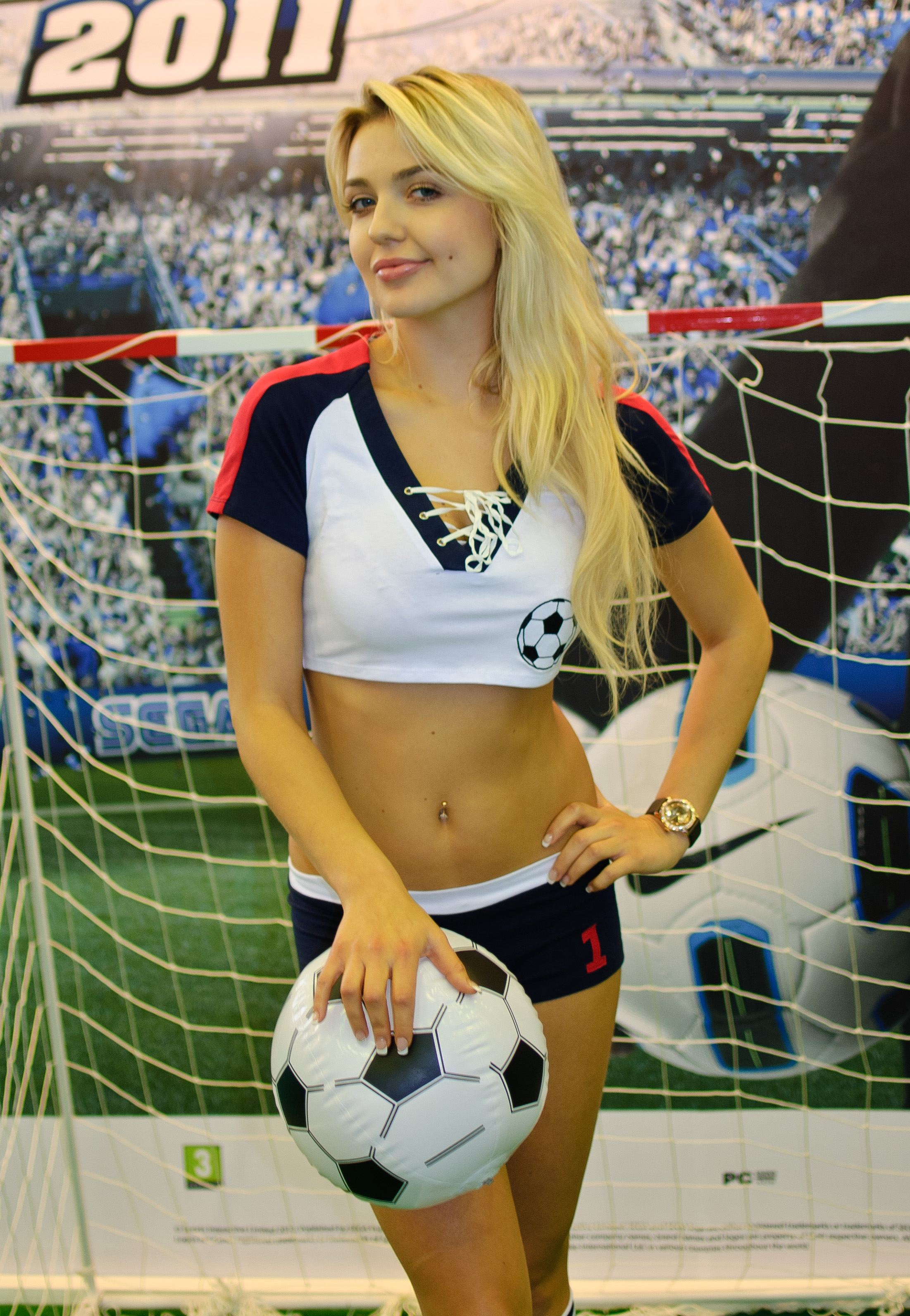 Girls of Igromir 2010